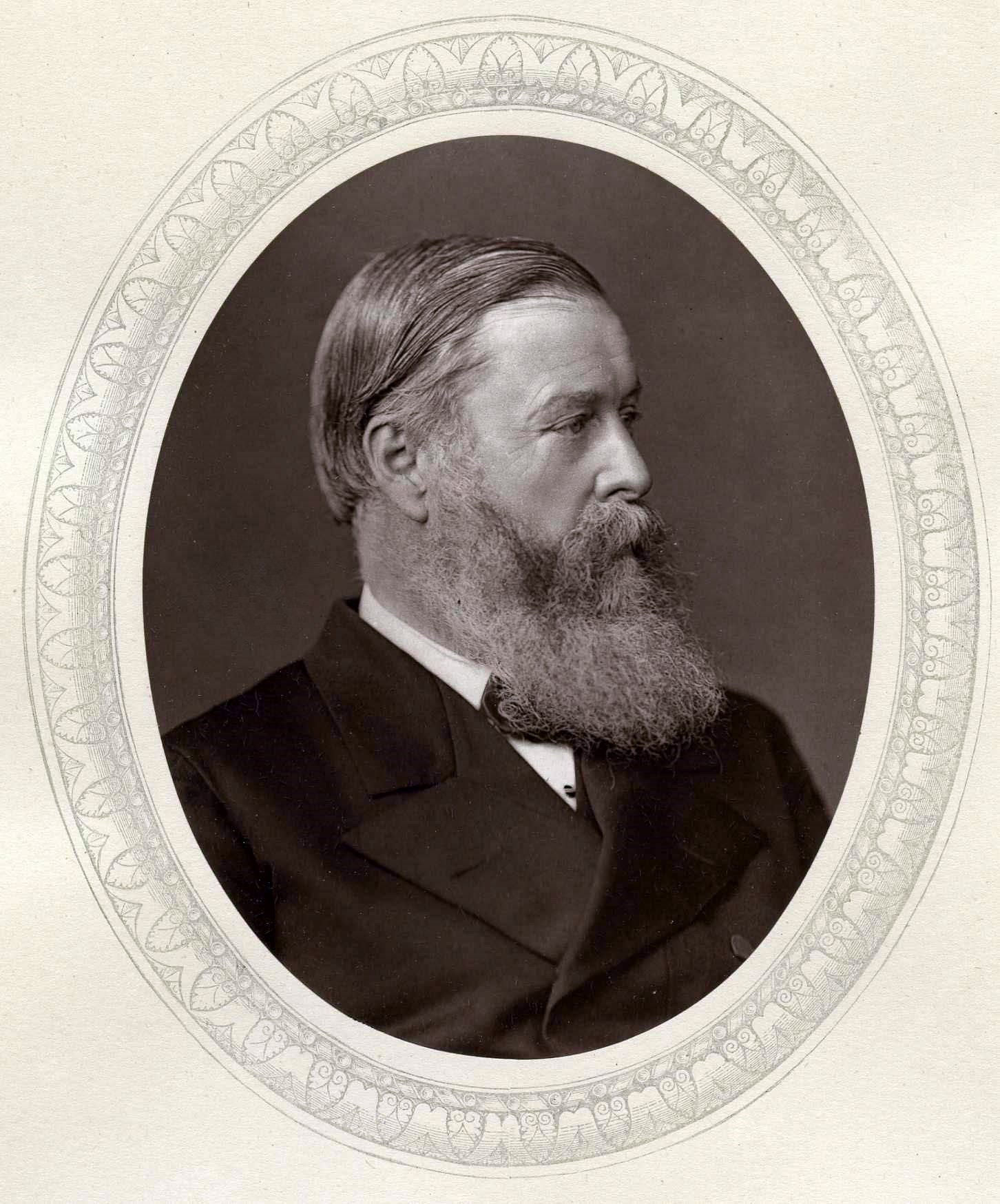 Woodburytype of Hugh Childers